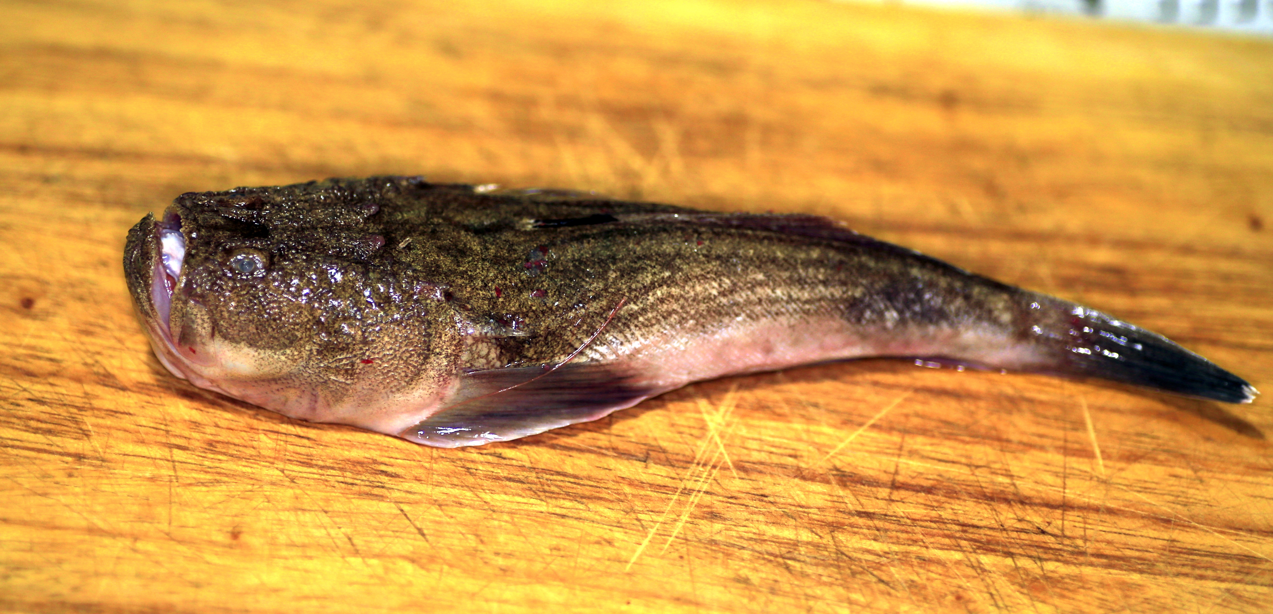 Uranoscopus scaber